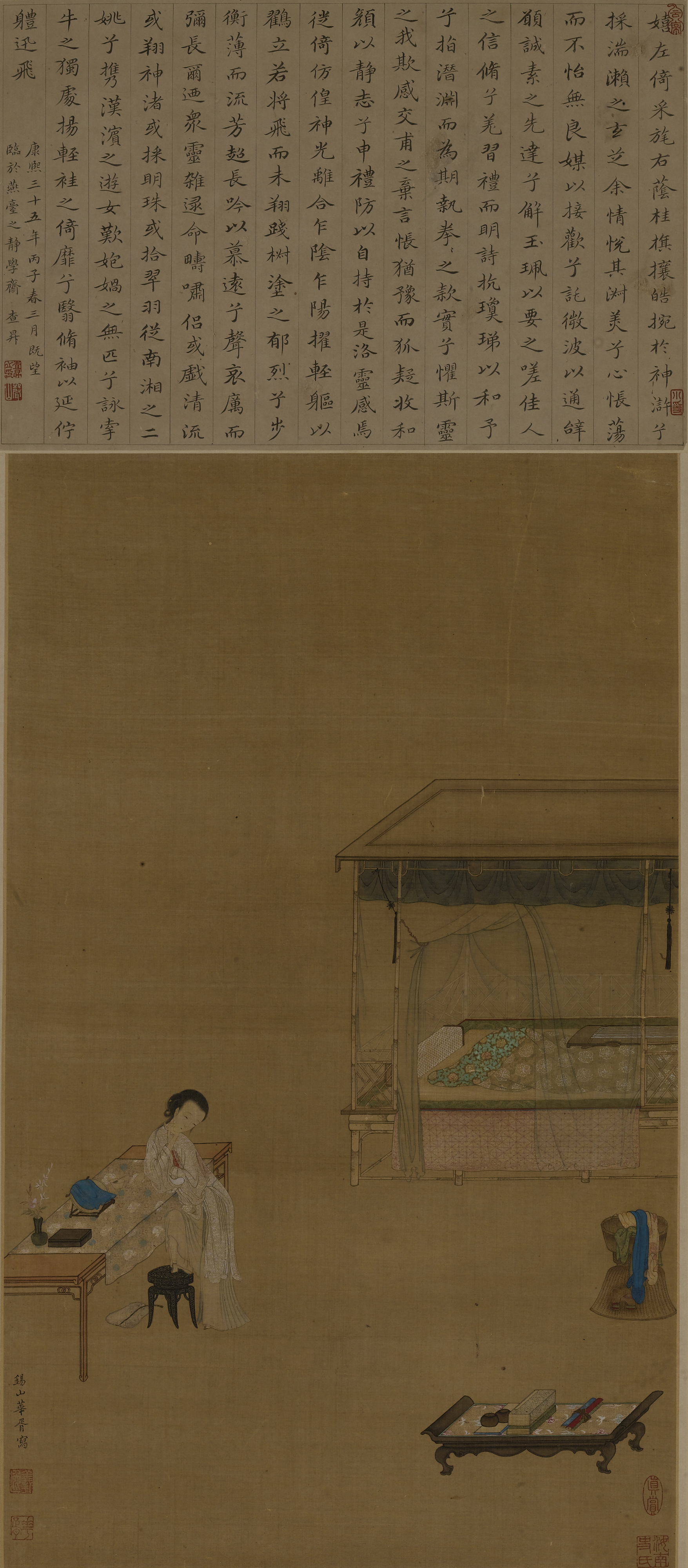 This depicts Consort Zhen Mi, wife of Cao Pi, from the Three Kingdoms period.